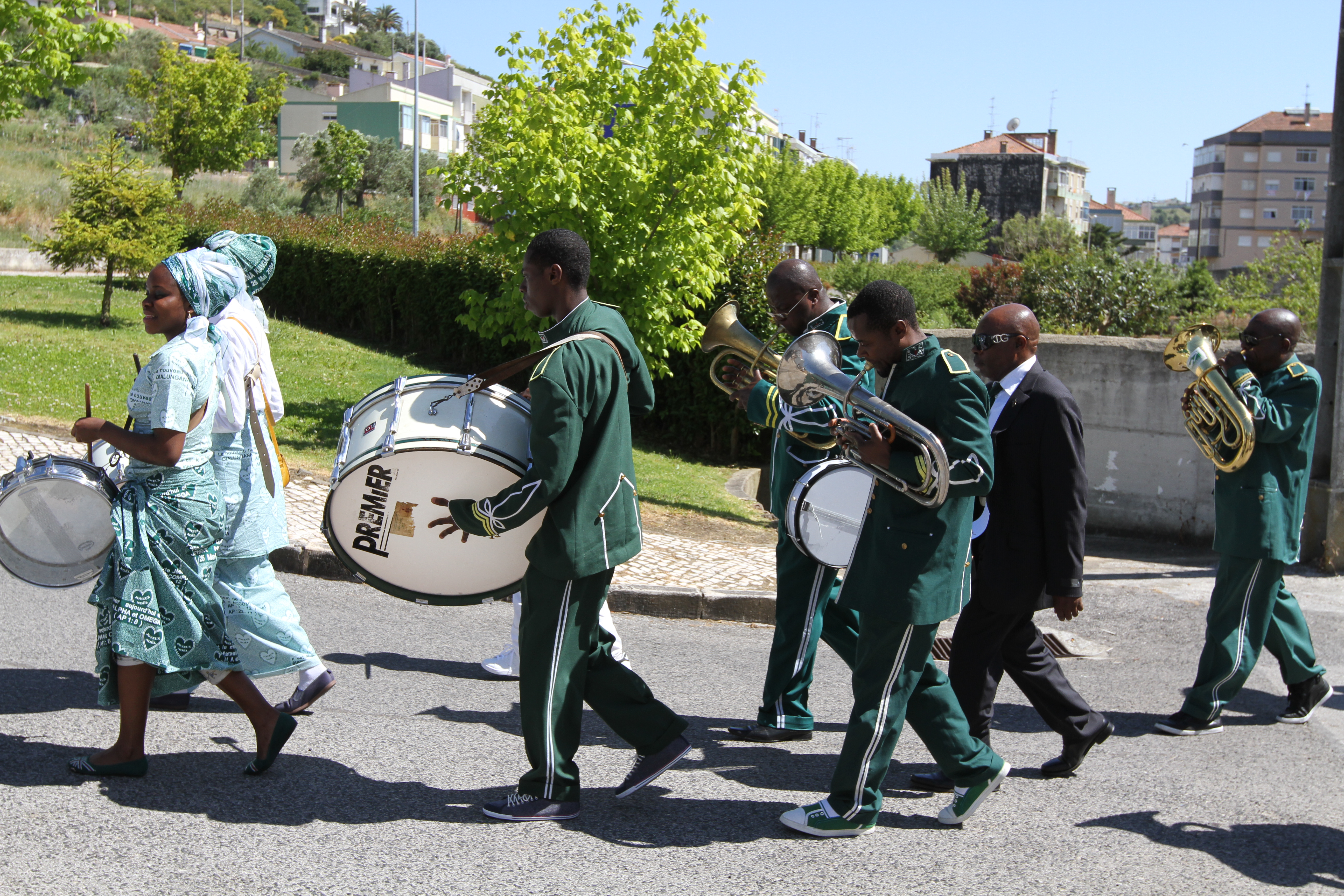 Members of the Kimbangu Church of Portugal celebrating New Year on May 25, 2013 outside Lisbon, Portugal.